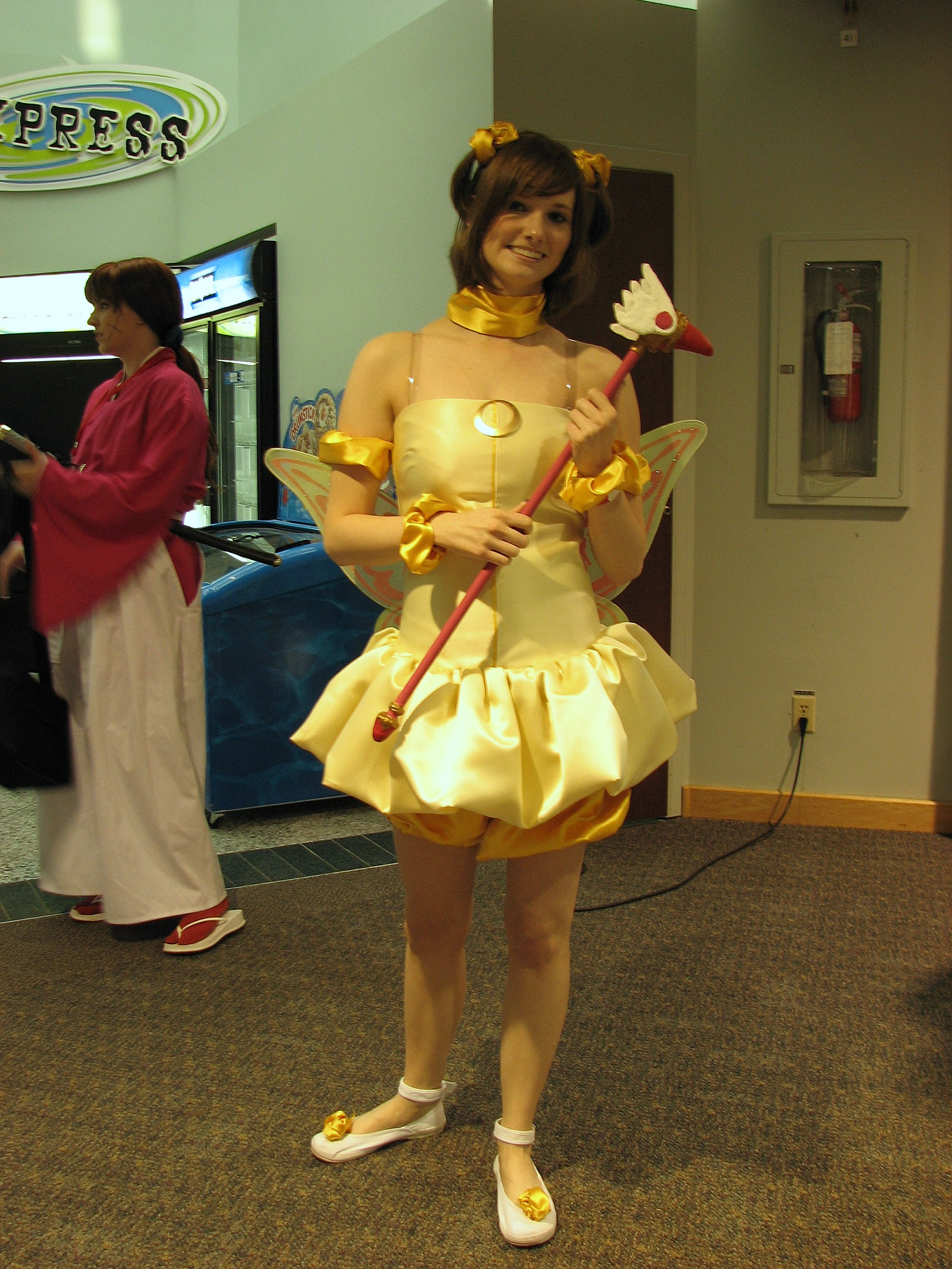 Cosplayers of Himura Kenshin from Rurouni Kenshin and Sakura Kinomoto from Cardcaptor Sakura at Animethon 2007. 中文（台灣）: Animethon 2007，《神劍闖江湖》緋村劍心、《庫洛魔法使》木之本櫻cosplayer。